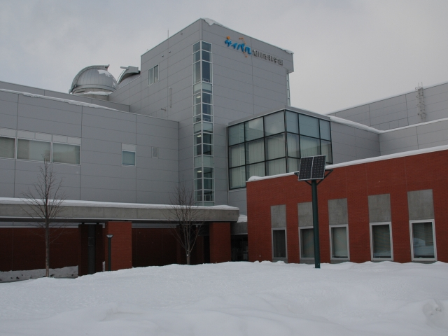 Museum of Science "SciPal", Asahikawa city , Hokkaido, Japan in Feb, 2006.